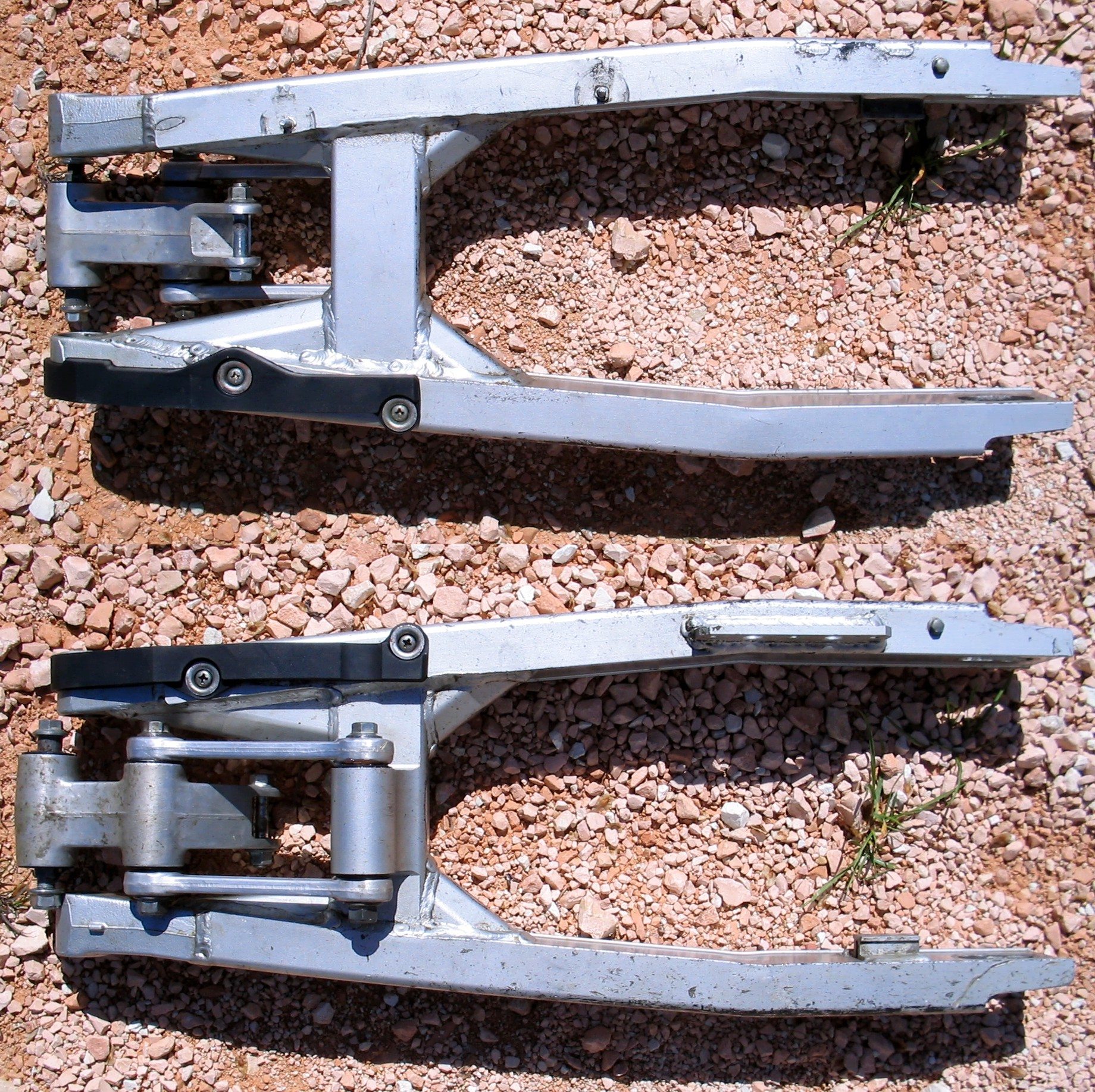 Swingarm symmetrical tubular box, fitted with levers.